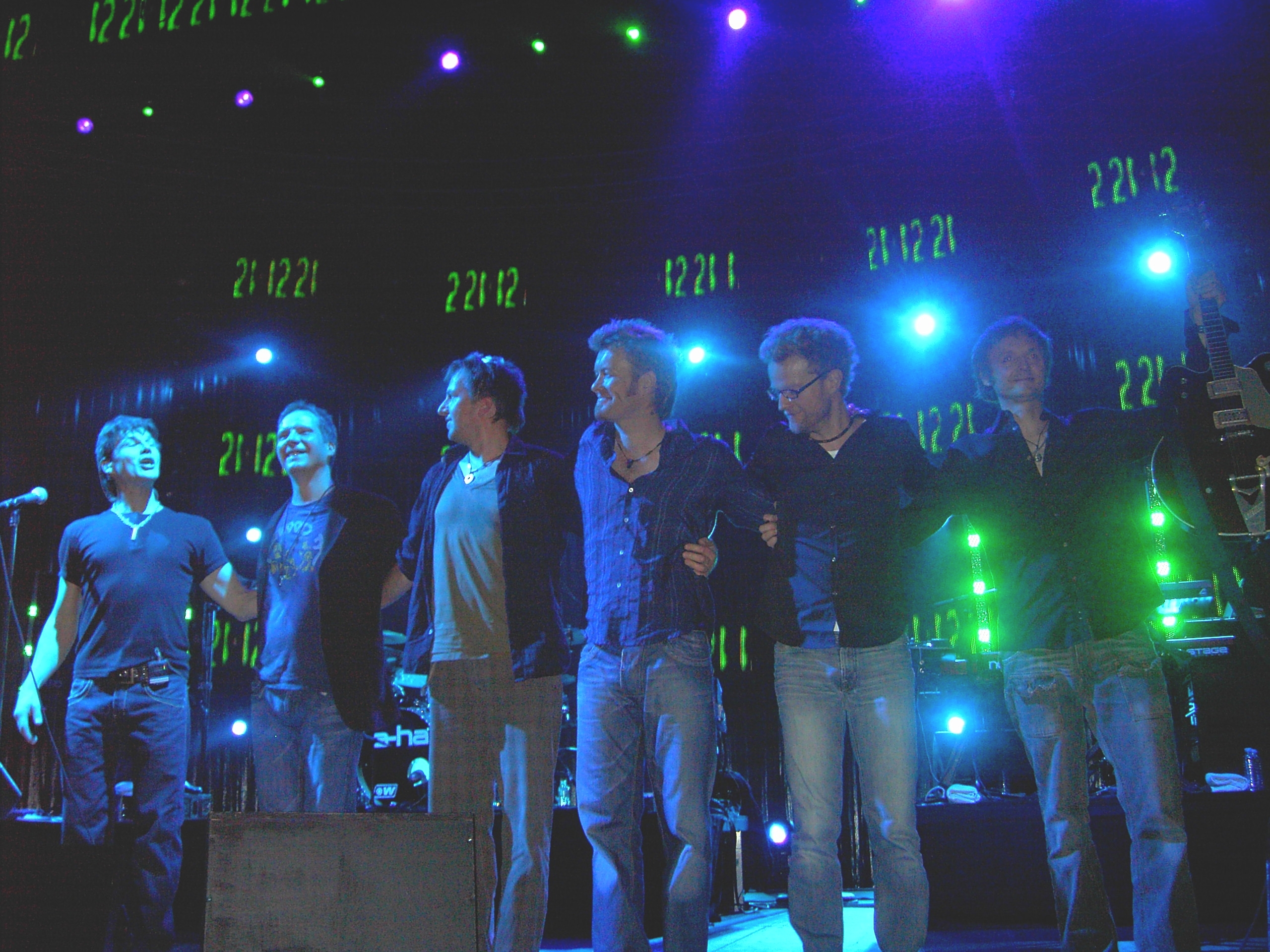 a-ha live at Cologne, 29th Oct. 2005